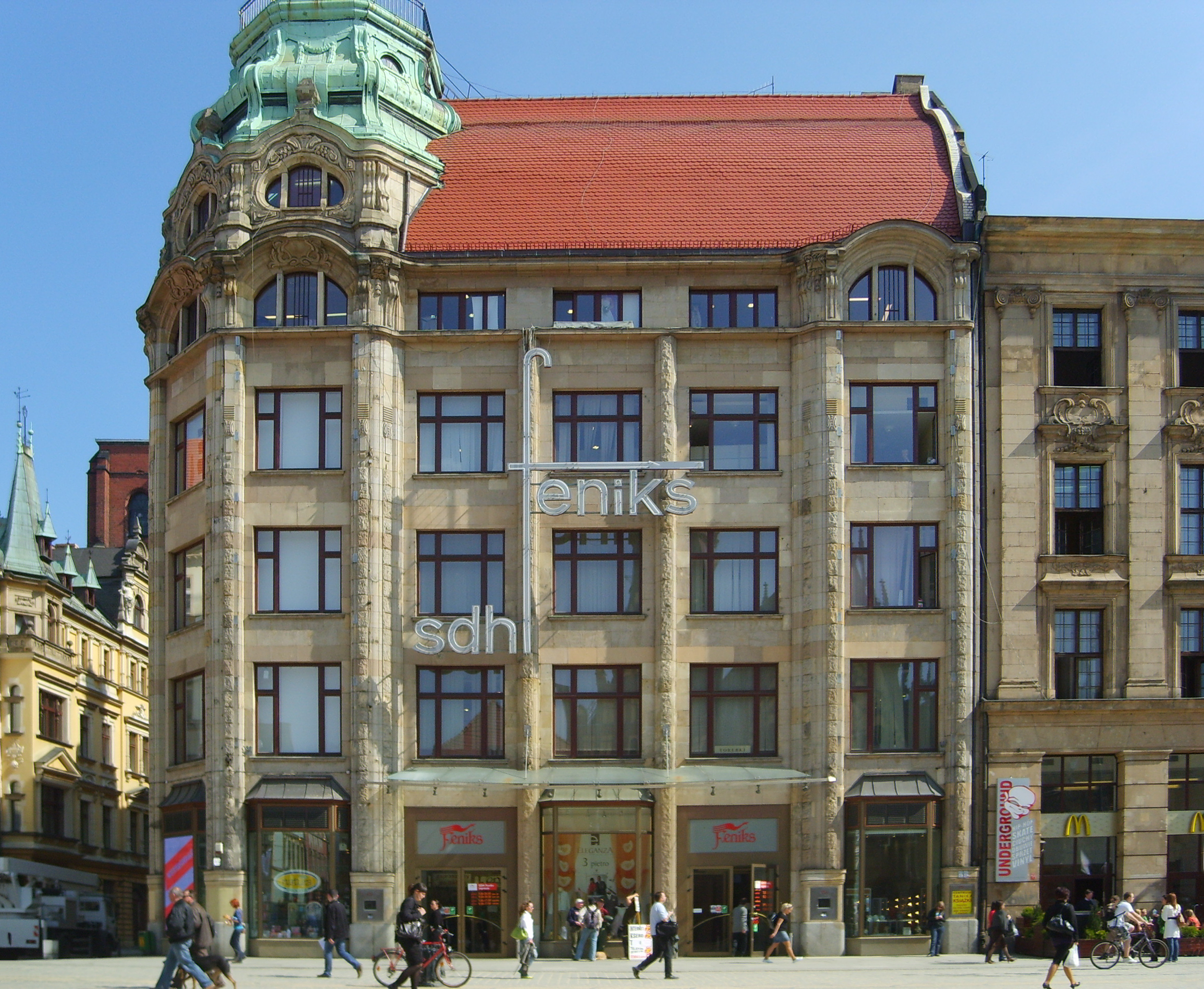 Shopping Center "Feniks" in Wrocław